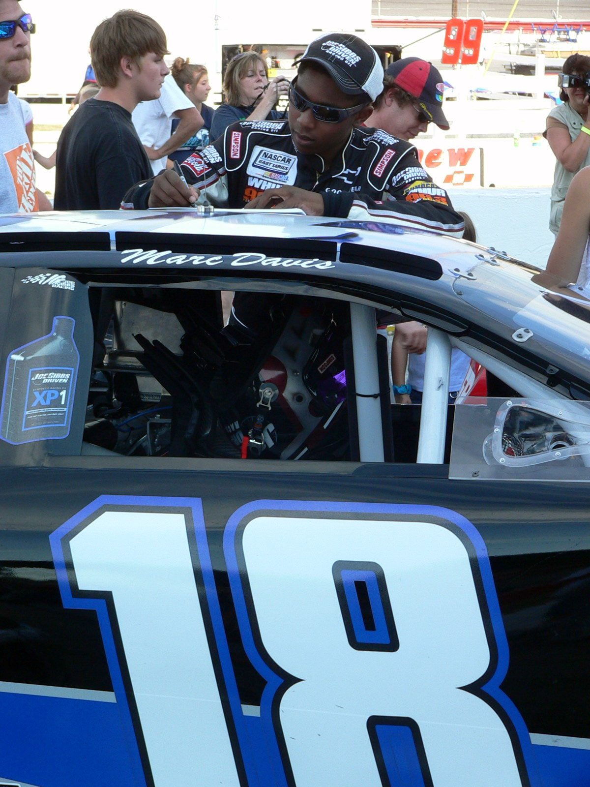 Joe Gibbs Racing developmental driver Marc Davis at the 2007 Busch East Series race the "Music City 150".Marc Davis - Joe Gibbs Driven Racing Oil